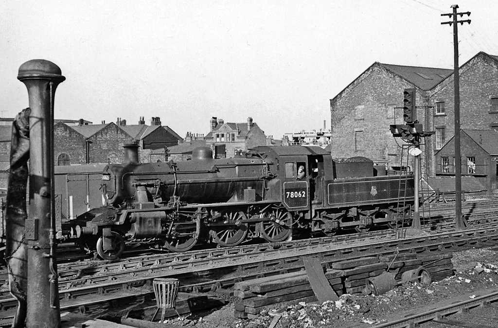 Locomotive shunting at Wigan Goods Station. View southward from the south end of Wigan North Western Station, across the lines connecting with those through the adjoining Wallgate Station on the ex-Lancashire & Yorkshire Manchester Victoria - Liverpool Exchange and Southport route. The locomotive is a BR Standard 2MT 2-6-0 No. 78062